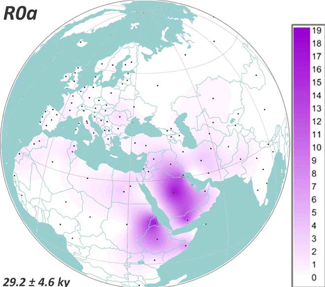 Spatial frequency distribution map of mtDNA haplogroup R0a. Cropped from File:Spatial frequency distribution maps of mtDNA haplogroups R0a, R0a1a, R0a2b1 and R0a2b2.jpg. Dots indicate the geographical locations of the surveyed populations. Population frequencies (%) correspond to those listed in Table S2. The extremely high frequencies of R0a in the Socotra sample (38.5%) was not included in order to provide a correct representation of the much lower frequencies in the regions surrounding the island. Spatial frequency distribution plots were constructed with the program Surfer 9 (Golden Software